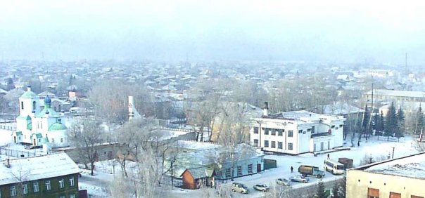 Centre of Promyshlennaya, Kemerovo oblast